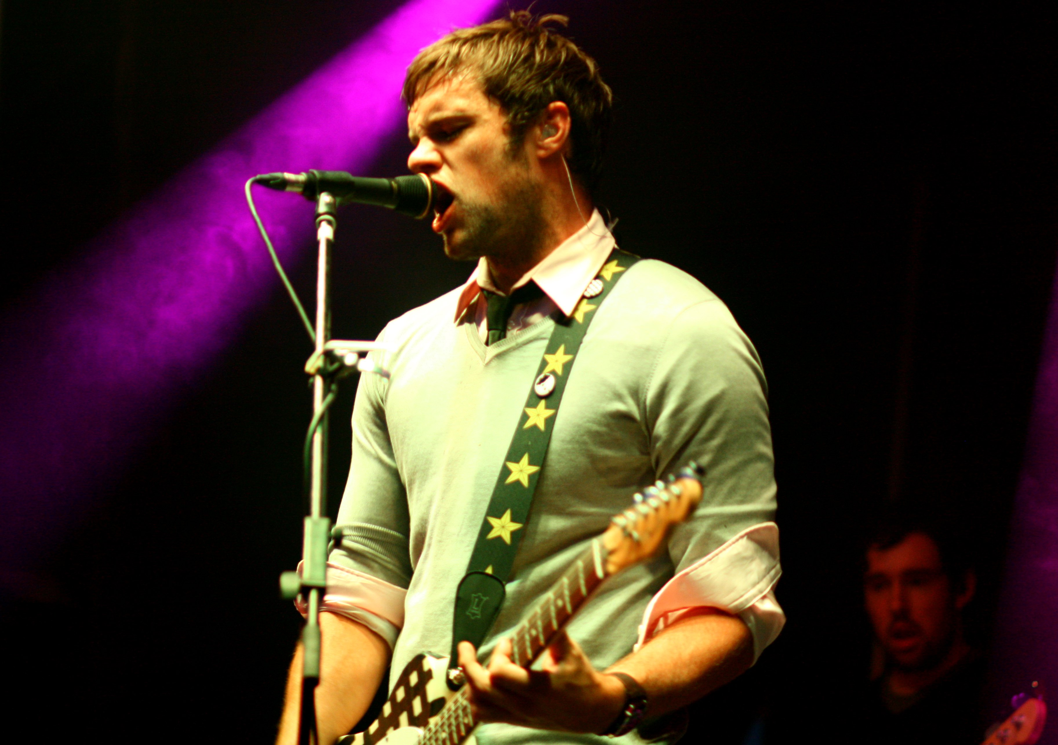 The Blizzards playing at Junction 7.08